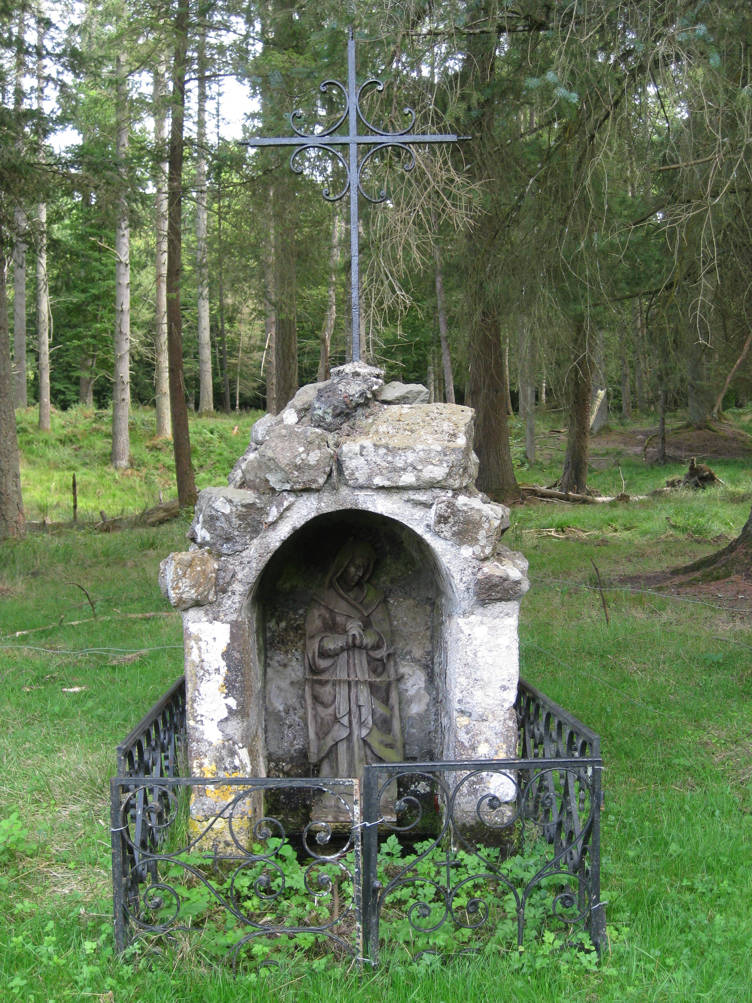 IN the nature park (~1,000 acre, created in 1968) of the old priory, now castle of Boutissaint, near Treigny in Puisaye, south of Yonne departement, Bourgogne, France. The "Saint-Langueur fountain", a spring on the south side of the castle, about 130 m away from the castle's main building.